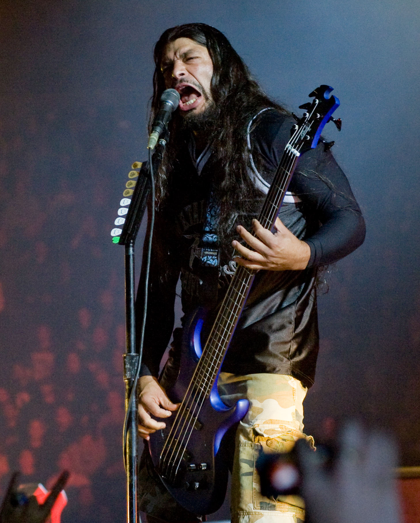 Robert Trujillo performing with Metallica at O2 in London, 15 September 2008.